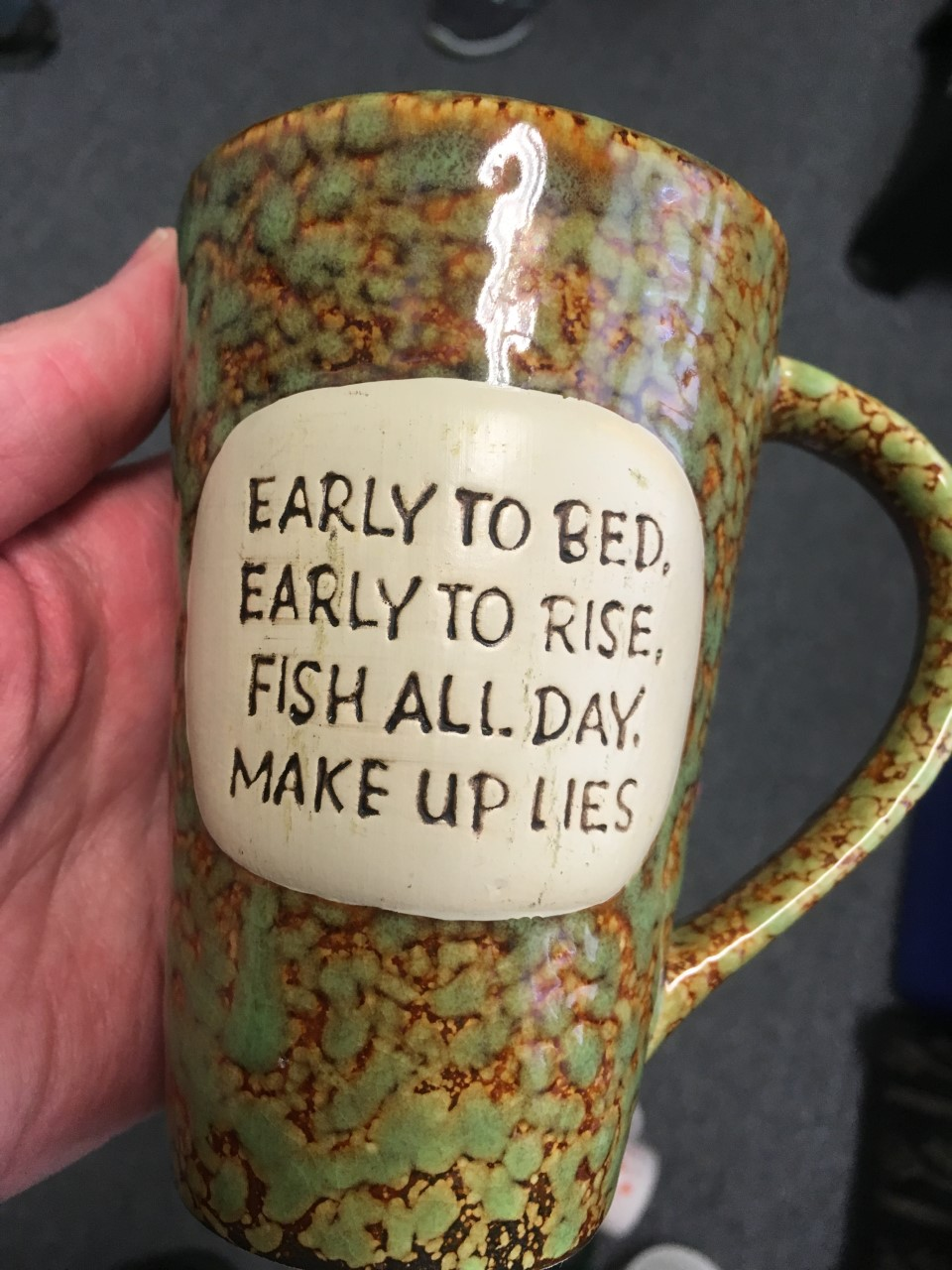 Coffee cup with adapted version of proverb, promoting fishing